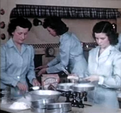 General Mills Home Service Department, screen shot from the film 400 Years in 4 Minutes, Prelinger Archives